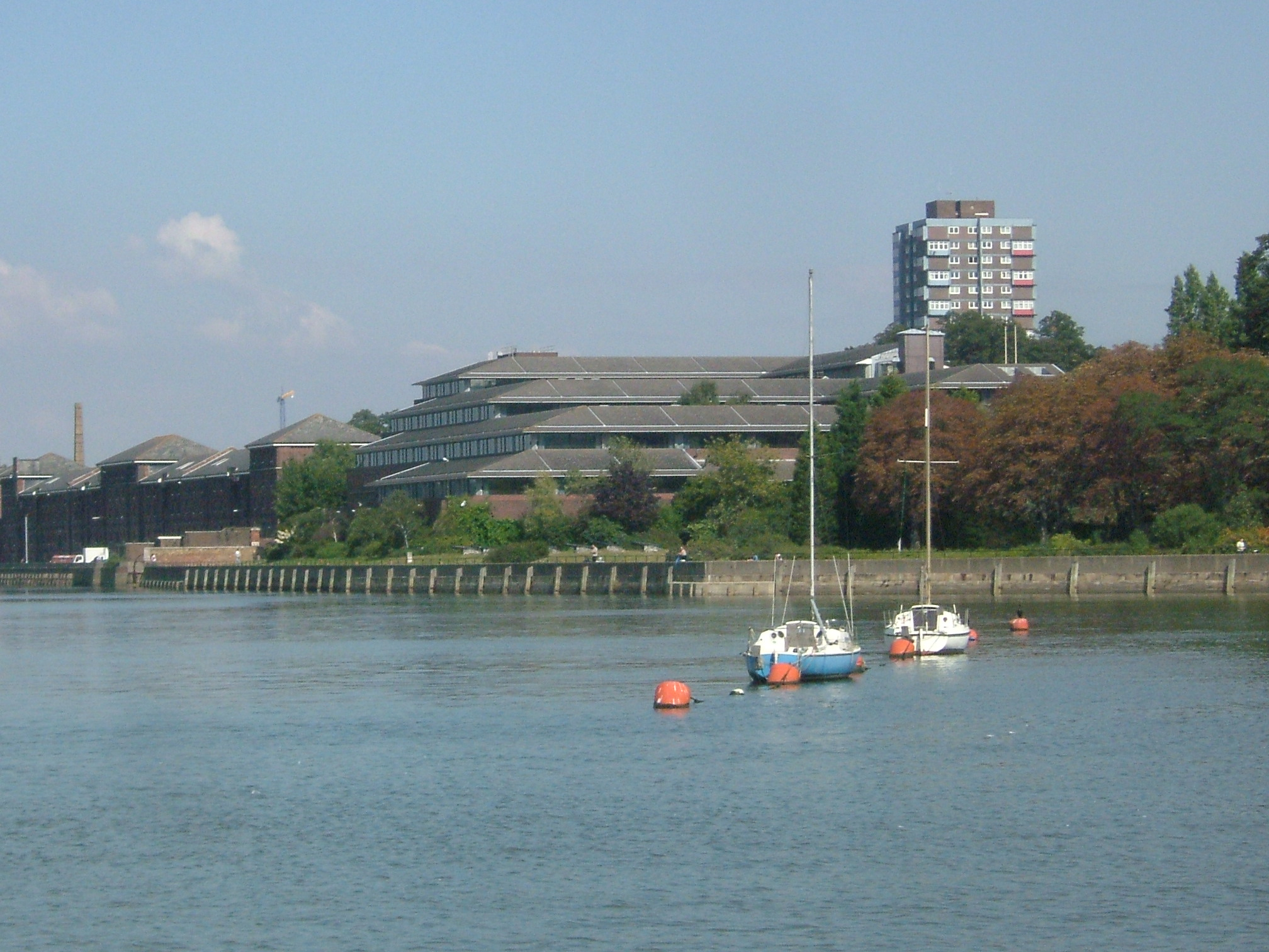 Chatham lies on the outside arc of the tidal River Medway. Upstream is Rochester and downstream is Chatham Dockyard. Gun Wharf with the Lloyds Building- HQ of Medway Council and the high rise flats at Melville Court behind.